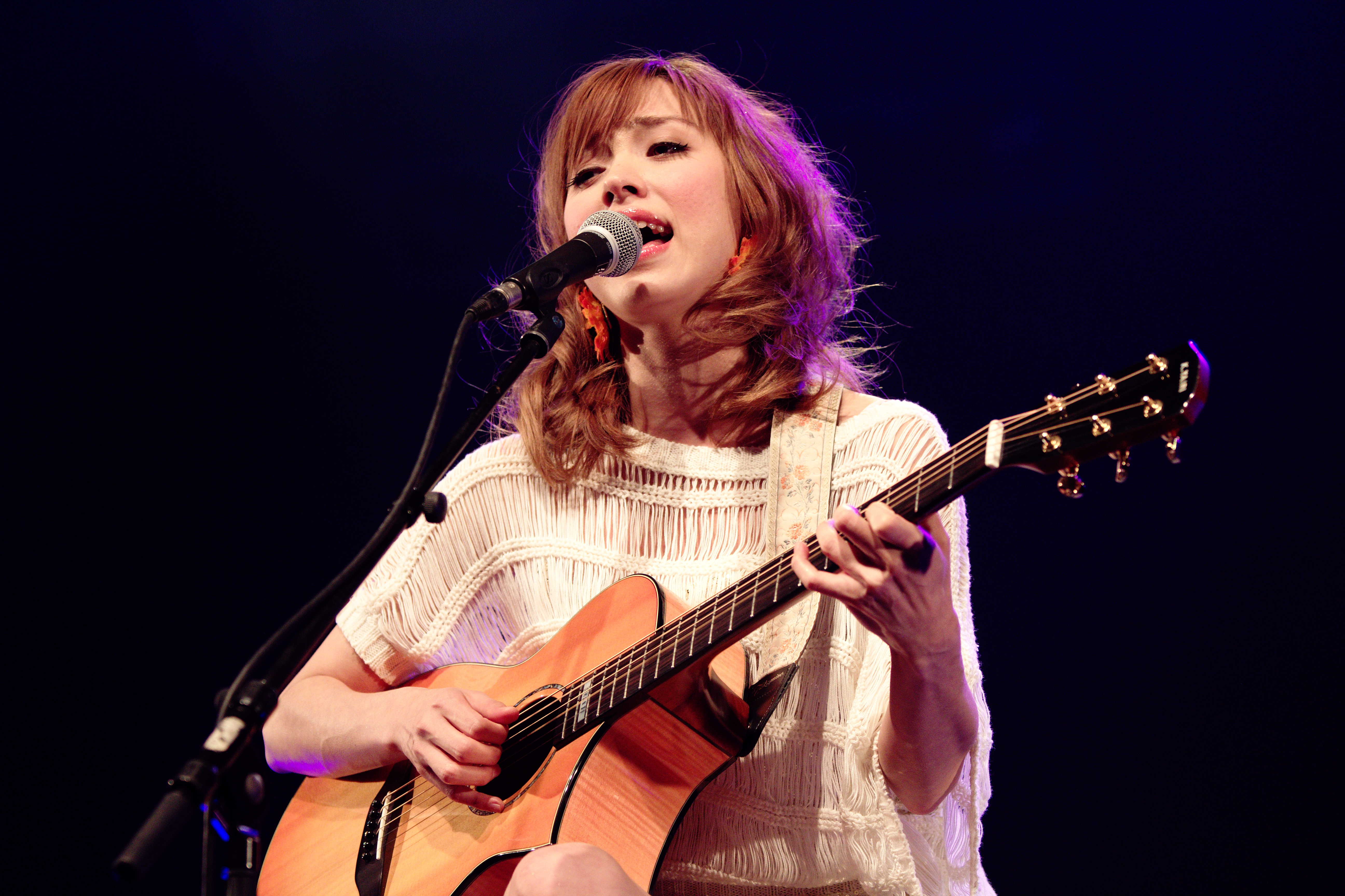 Shanti Snyder live at Japan Expo 2011 (Paris, France)